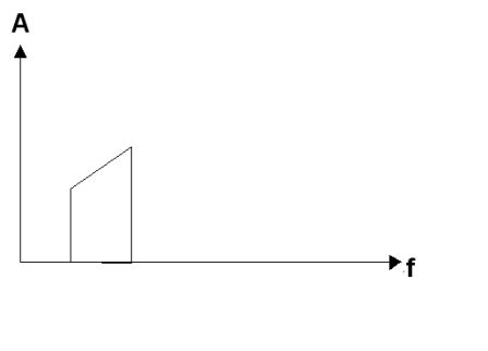 Sygnał modulujący